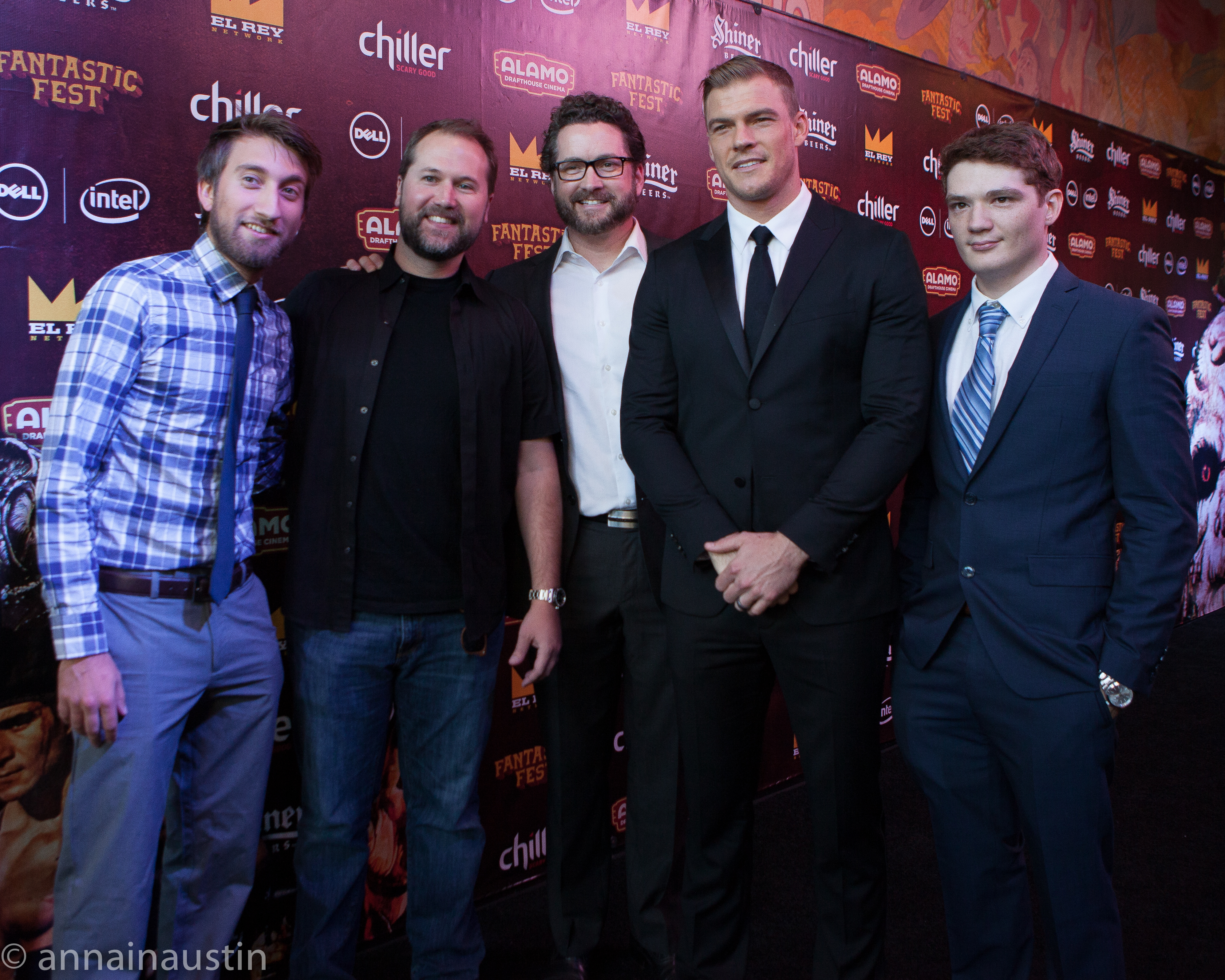 The cast and director of Lazer Team on the red carpet at the film's premiere at Fantastic Fest 2015. From left to right, pictured is Gavin Free, Matt Hullum, Burnie Burns, Alan Ritchson, and Michael Jones.